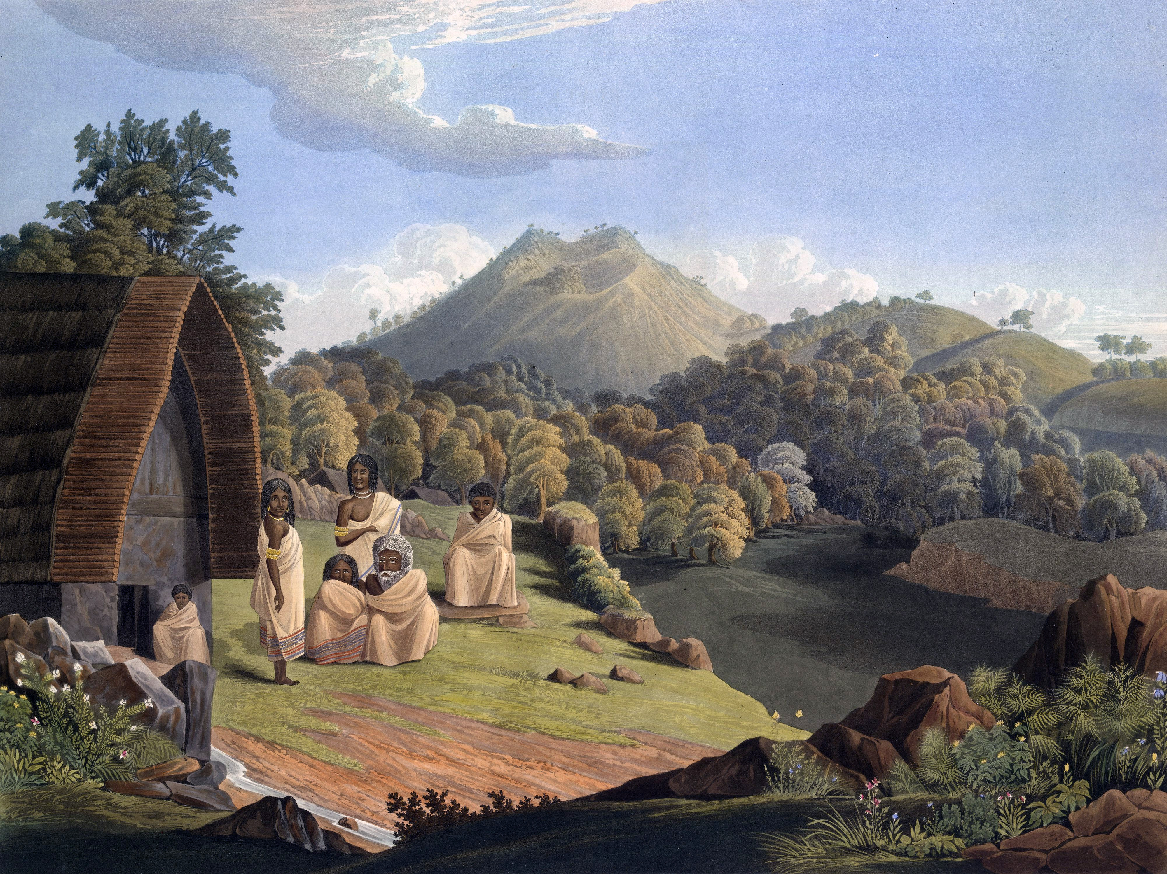 Plate 5 from Richard Barron's 'View in India, chiefly among the Neelgherry Hills'